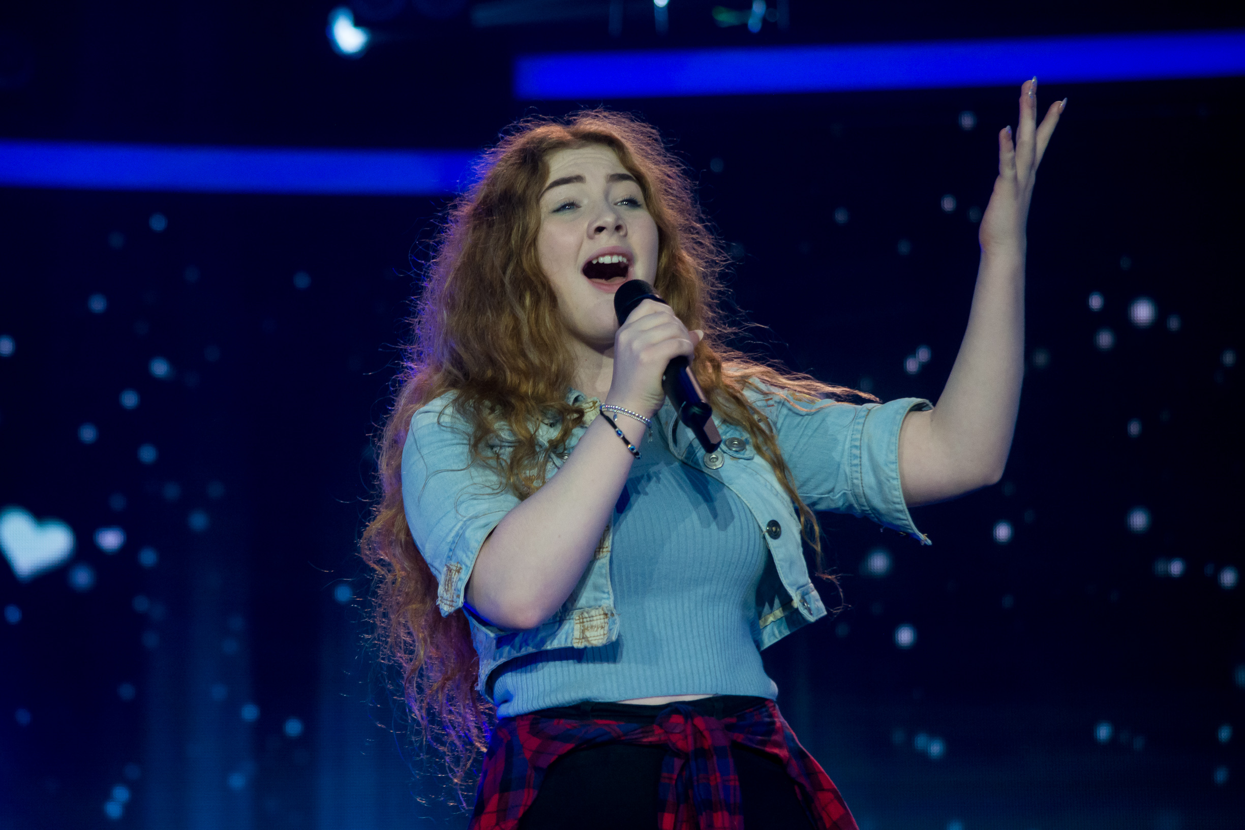 JESC 2016 participant: Zena Donnelly (Ireland)